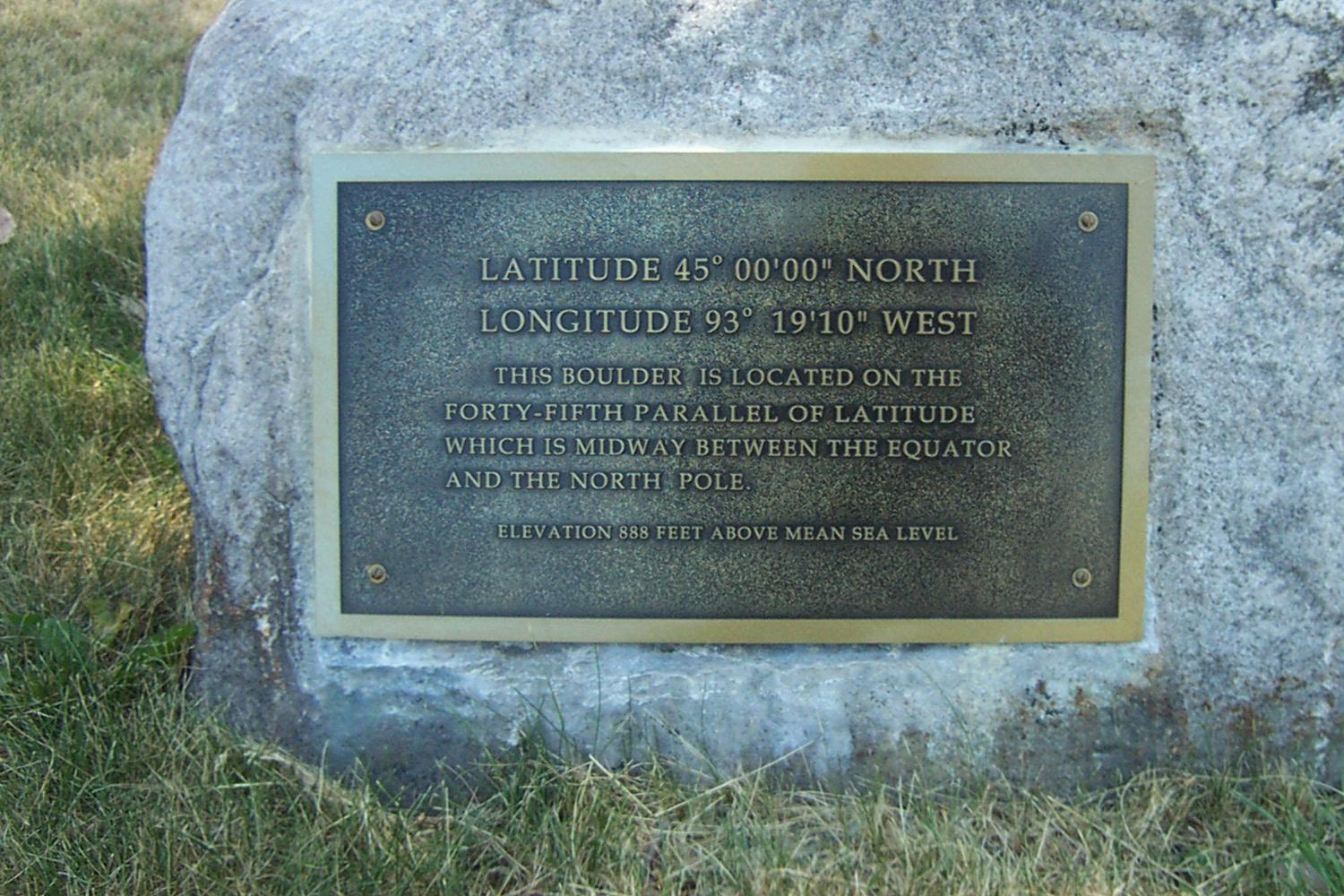 45th Parallel marker at Golden Valley Rd and Wirth Parkway